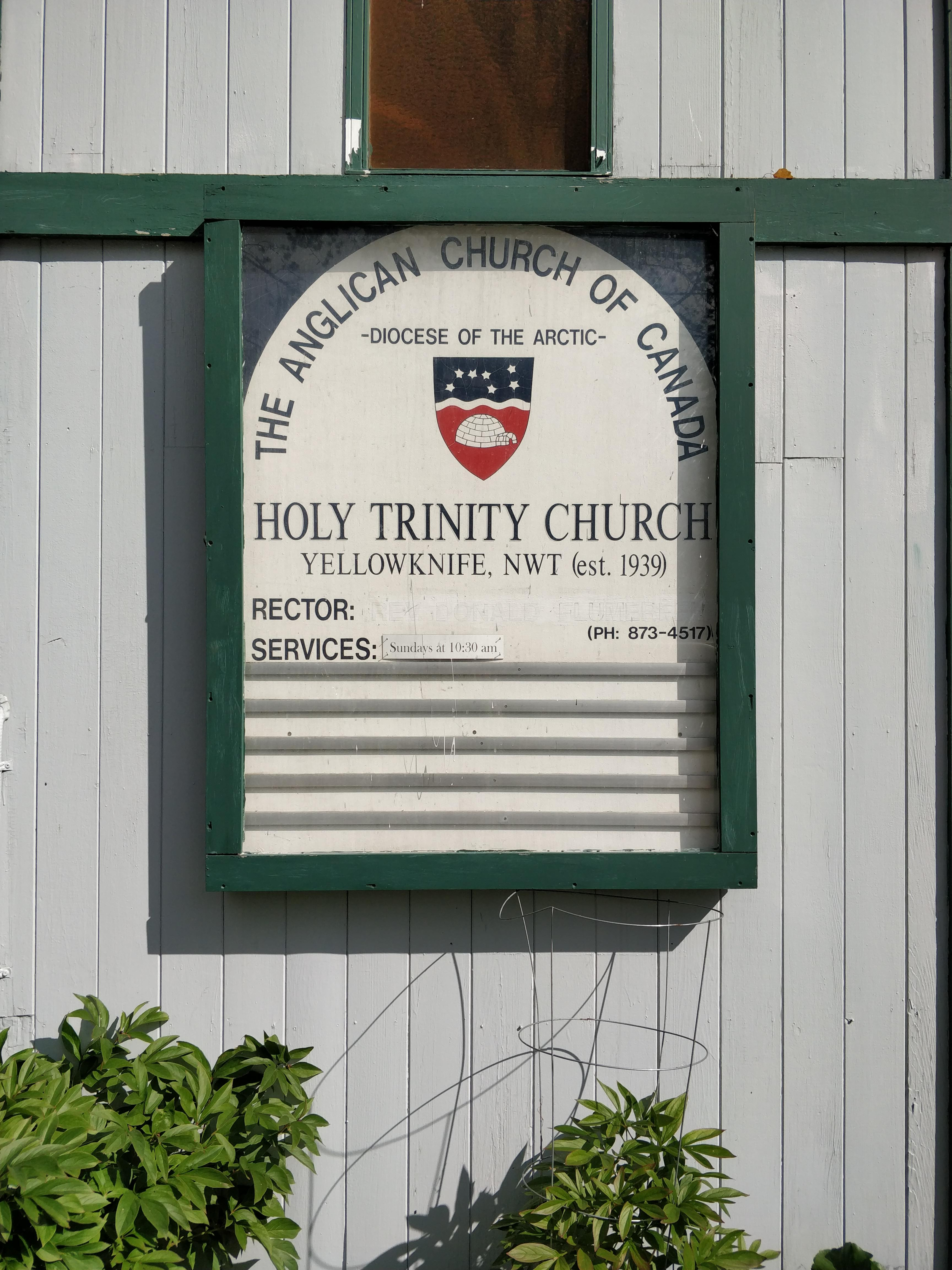 Sign and symbol of the Diocese of the Arctic in Yellowknife, Northwest Territories, Canada.